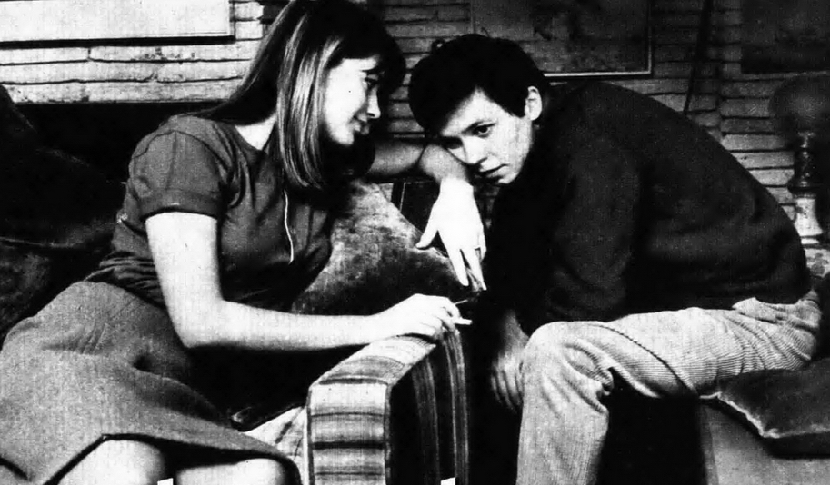 Actors Catherine Spaak and Fabrizio Capucci in their house in Rome